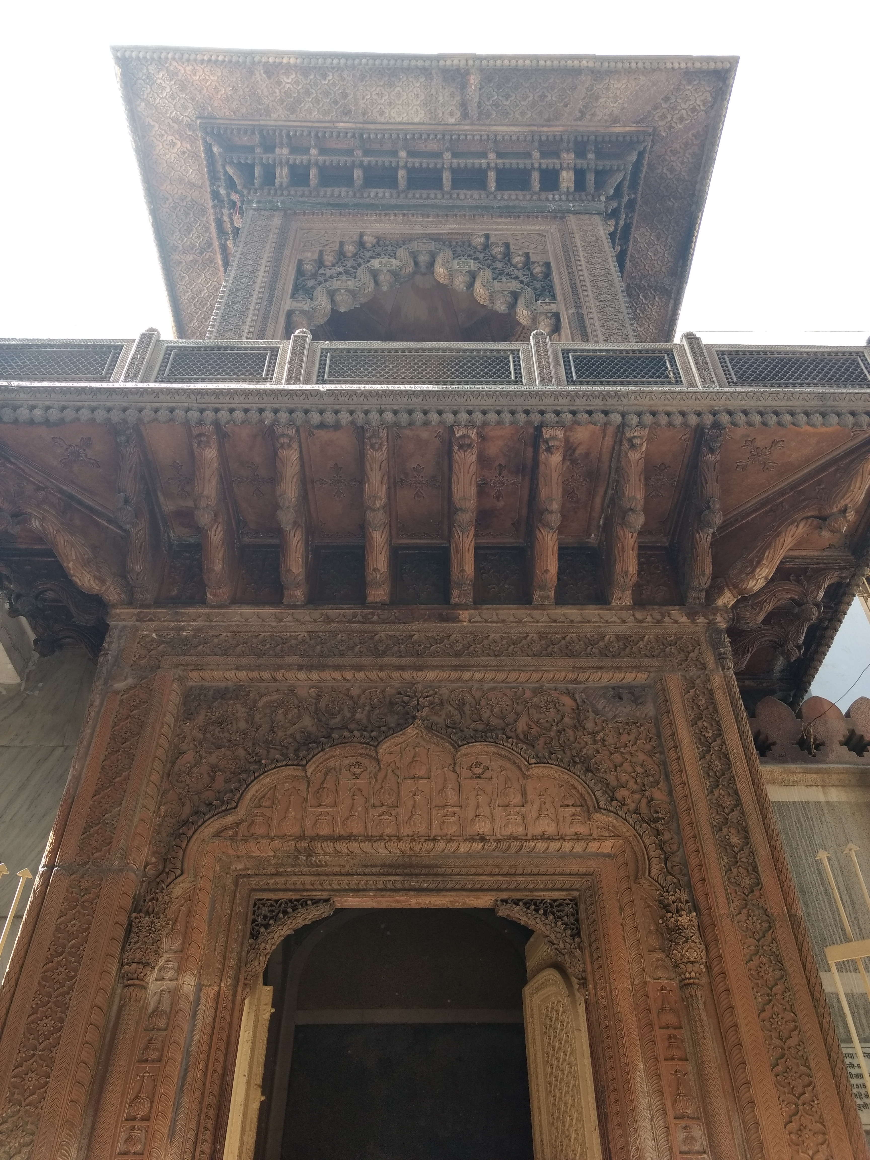 Naya Mandir, Dharampura, Chandni Chawk